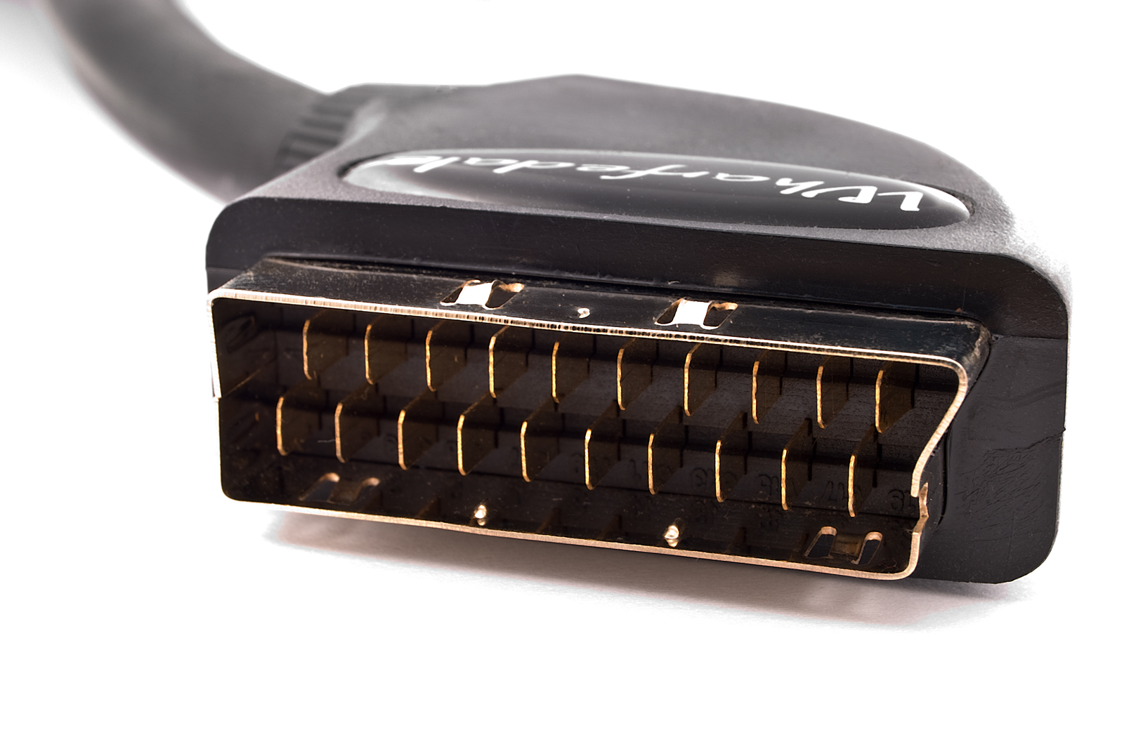 Image of a SCART connector.